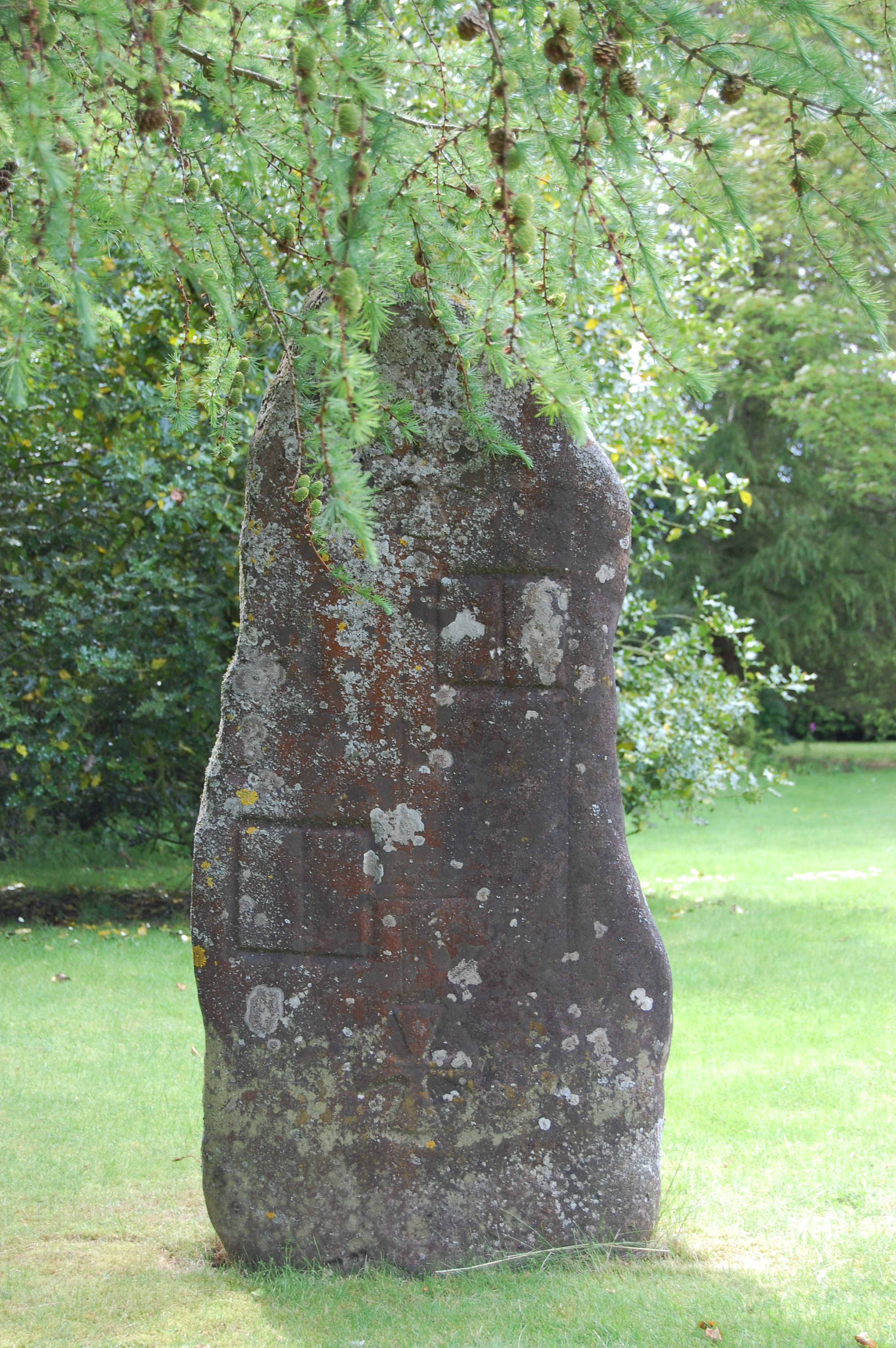 An engraved stone, situated in the garden of the New Manse by Arbirlot